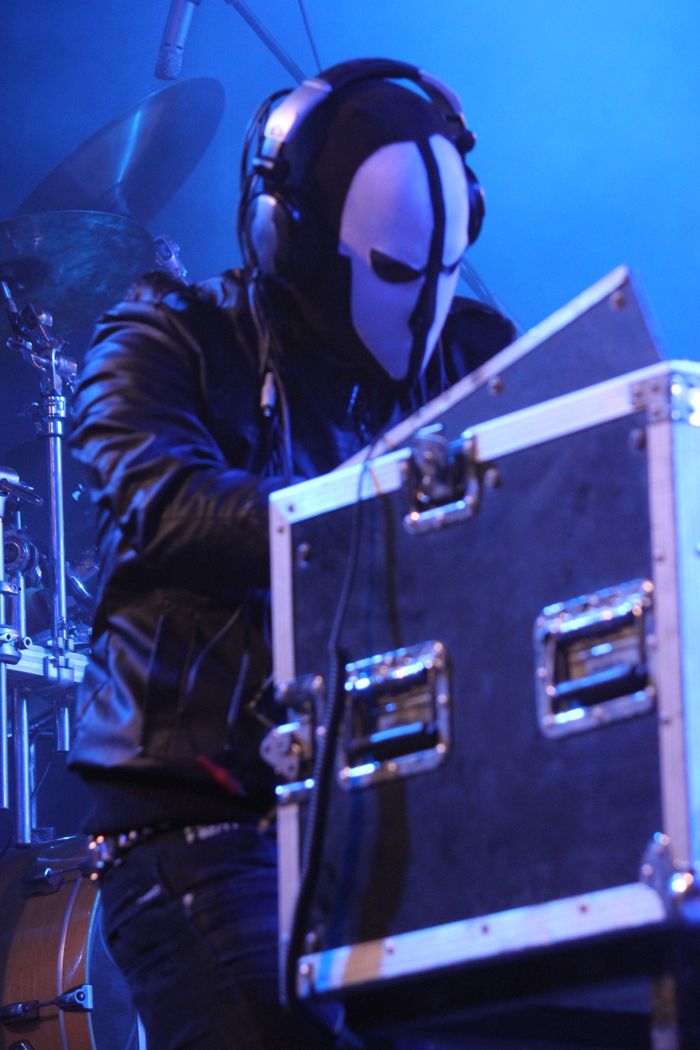 Picture taken during Zardonic's opening act for Dimmu Borgir in Caracas, Venezuela. 25 Feb 2012.